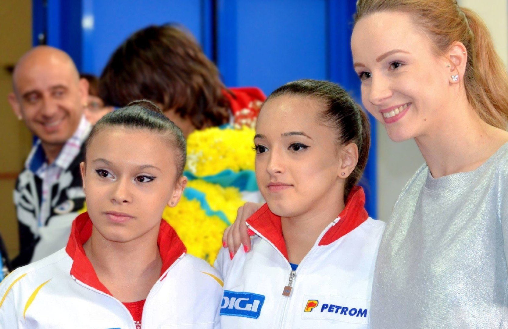 Diana Bulimar, Larisa Iordache, Sandra Izbasa at Euro Sofia 2014